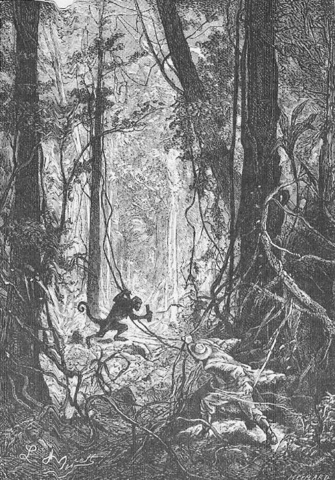 An illustration from Jules Verne's novel "Eight Hundred Leagues on the Amazon".